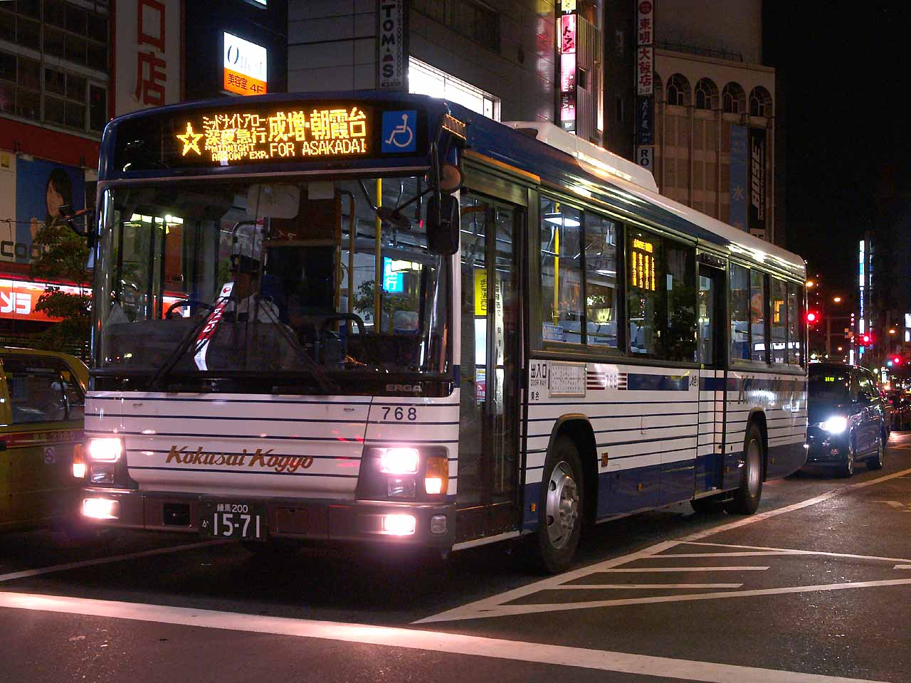 fleet of midnight express bus service "Midnight Arrow" in Kokusai Kogyo Bus, painted sightseeing bus design: white and dark blue. Model: Isuzu Erga PJ-LV234Q1 License plate: TKN200 KA1571 Place: Ikebukuro station west, Toshima ward, Tokyo Japan 国際興業バスの深夜急行バス「ミッドナイトアロー」に用いられるいすゞエルガ。ワンステップ車をベースに高速バス・貸切車と同様のカラーリングを採用する。 型式：PJ-LV234Q1 登録番号：練馬200か1571 撮影地：東京都豊島区・池袋駅西口付近